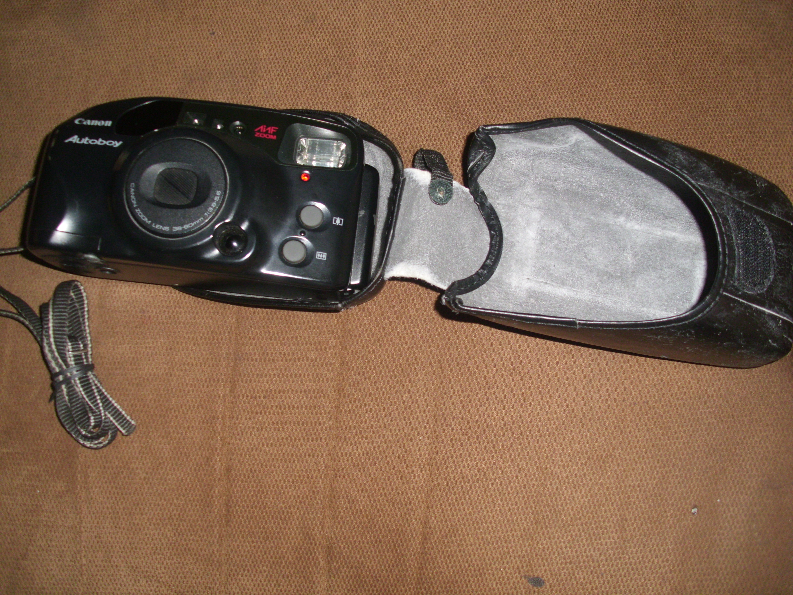 Canon Autoboy with Original Case